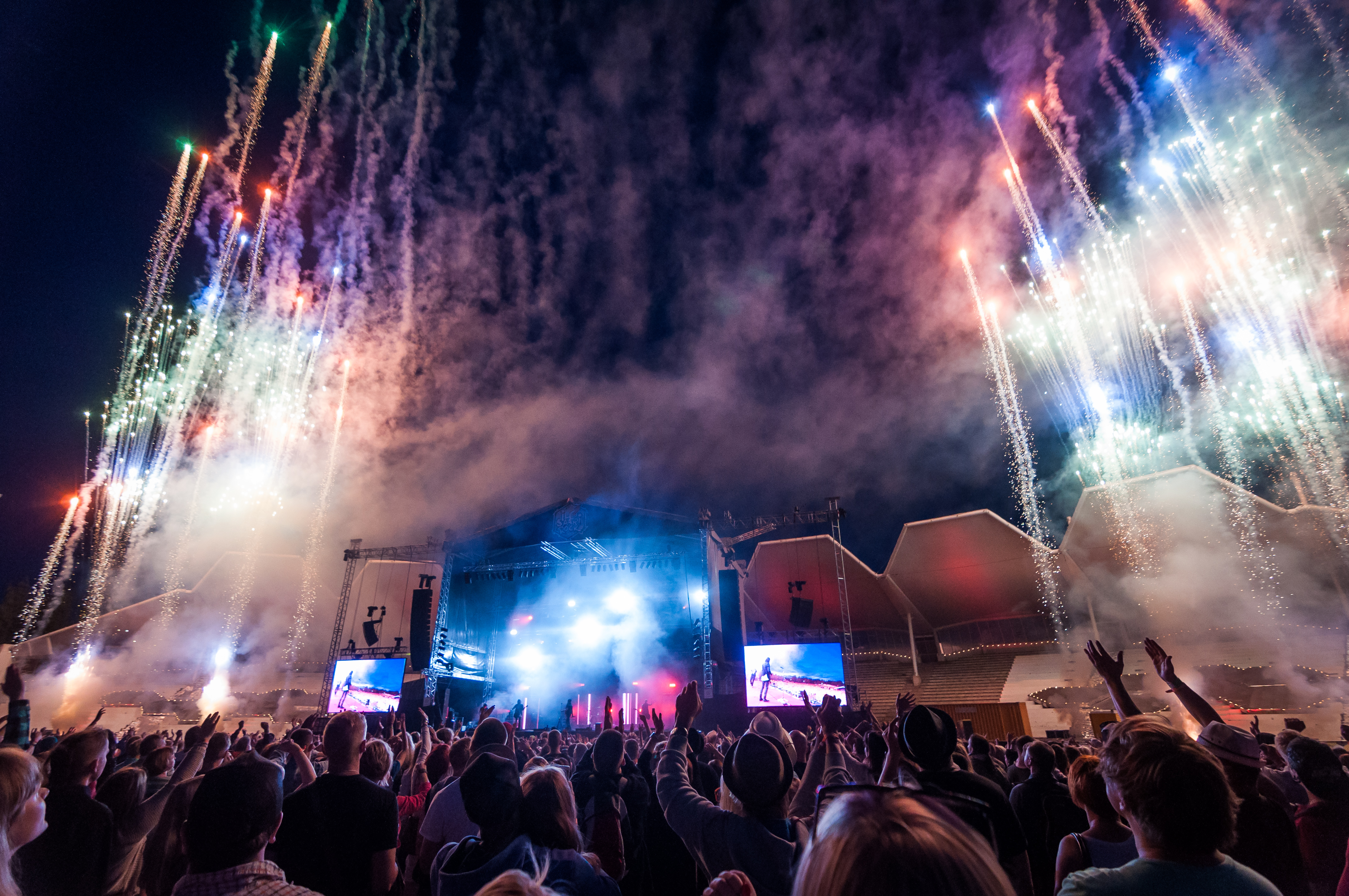 Finnish rock band Happoradio performing at the 2014 Ilosaarirock festival in Joensuu, Finland.